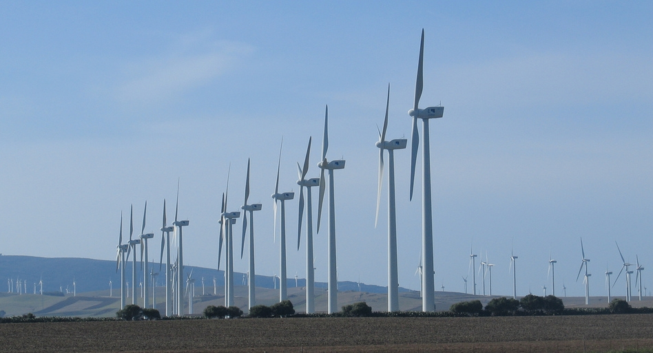 Wind farm near Barbate, Cádiz (Spain)